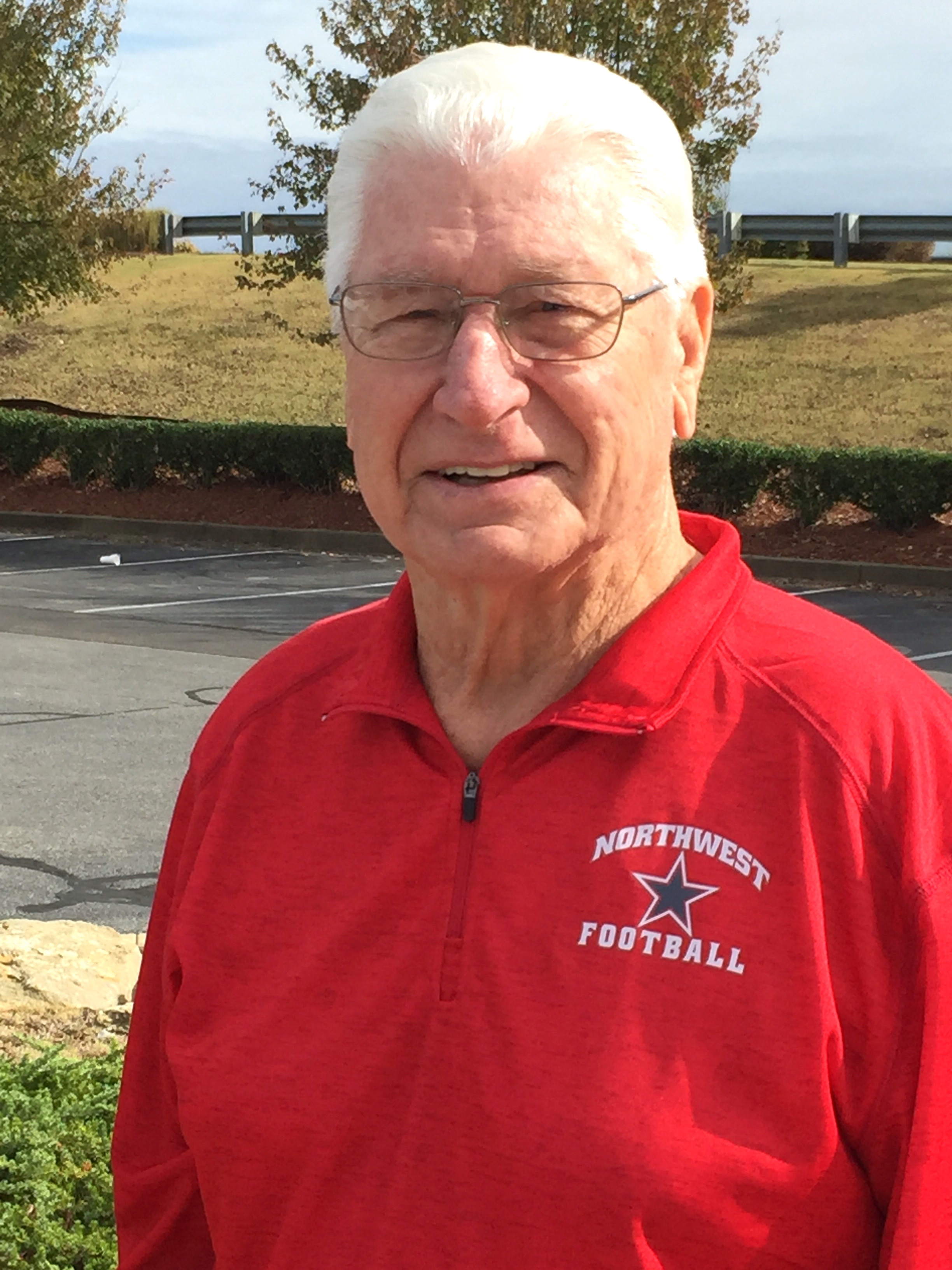 Bobby Franklin, retired NFL player and assistant coach, NCAA and Junior College assistant and head coach, Oct. 2019, Southaven, Mississippi